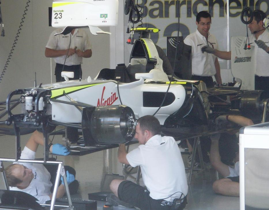 Mechanics working on Rubens Barrichello's Brawn BGP 001 during practices on Friday of 2009 Turkish Grand Prix weekend.